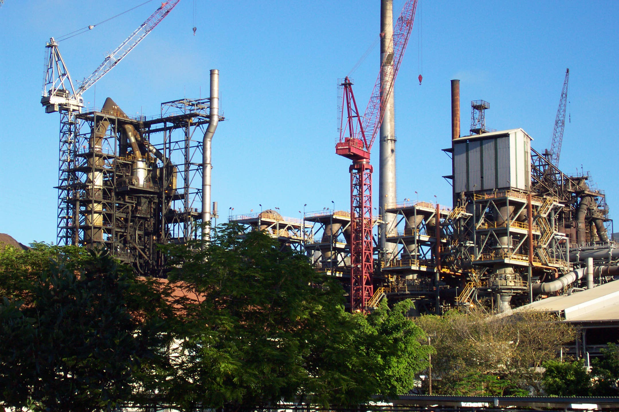 A side view of the Mount Isa copper smelter in 2002, showing the ISASMELT™ plant beneath the crane on the left.